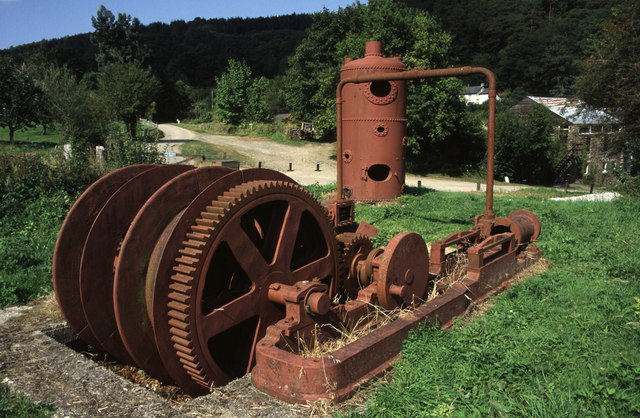 Morwellham Quay, industrial artefacts. This is a corner of this large open air museum. The current state is unknown as the site was in financial difficulties and due to close at the end of the 2009 season. Hopefully a suitable rescue package will be sorted. In the foreground are the rusty remains of a duplex steam engine used at Treskilling China Clay Works to haul waste up the spoil heap. This was long disused and by an unknown maker at an unknown date. Steam had been supplied by the vertical boiler behind. It is now at the King Edward School of Mines, Troon, near Camborne.